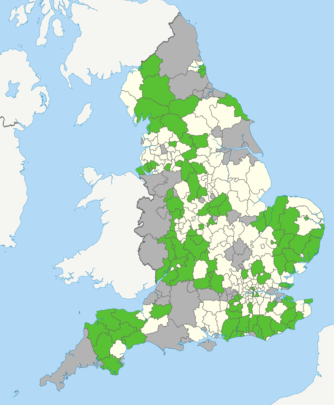 A map showing the representation of the Green Party of England and Wales at the Borough/City/District level of government.